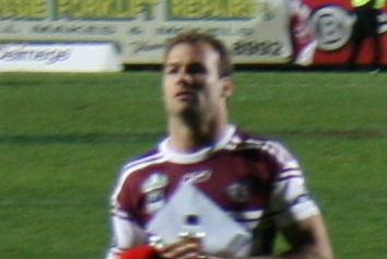 pic of manly player